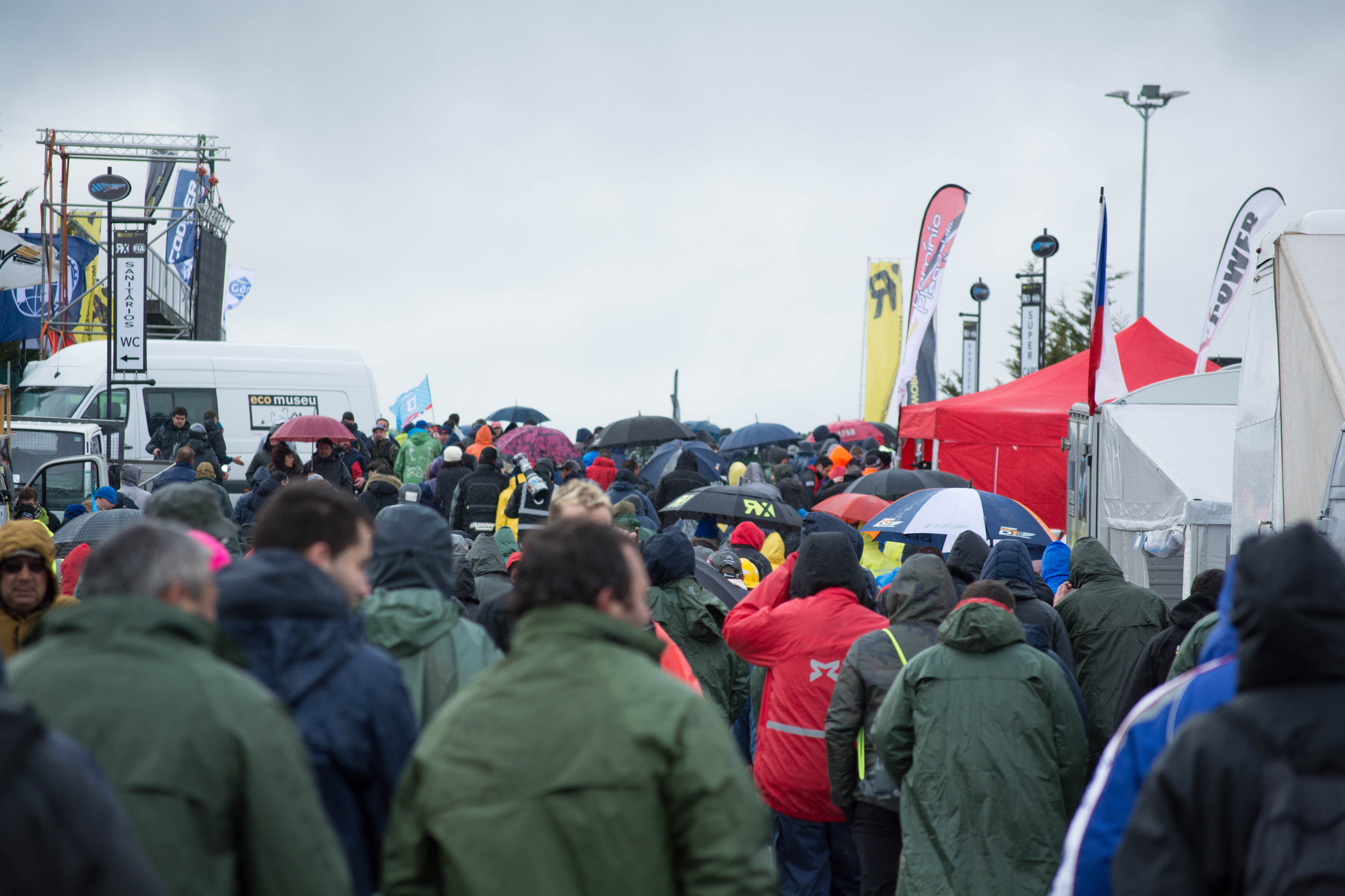 Portugal Montalegre 2016